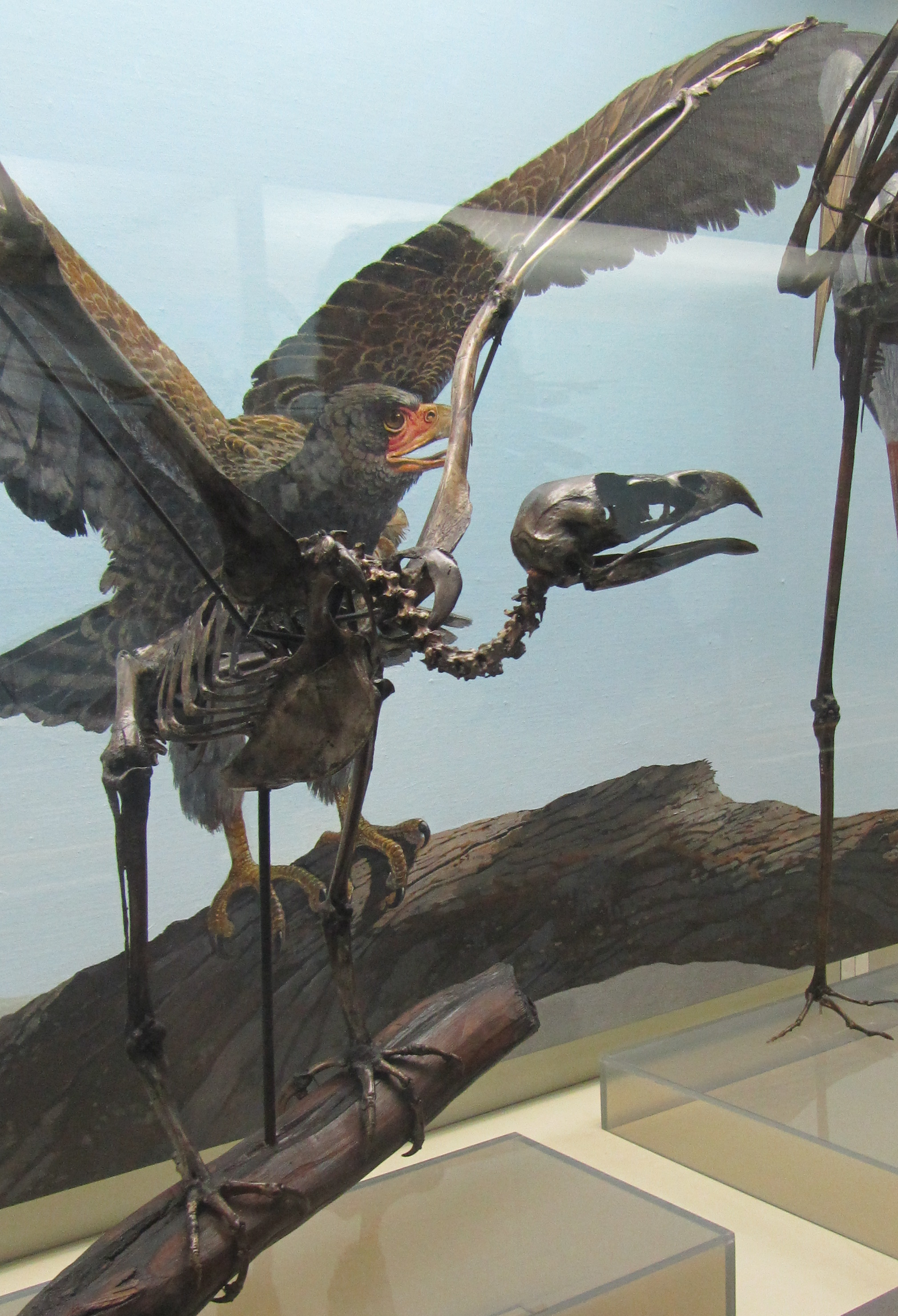 Neogyps errans This extinct eagle was about the size of the living Golden Eagle